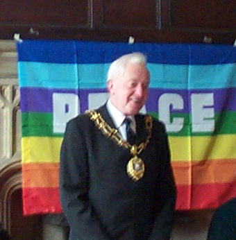 Councillor Patrick (Pat) John Stannard [1], Lord Mayor of Oxford, England, speaking to the Nuclear Non-Proliferation Treaty day school (Christian Campaign for Nuclear Disarmament), Oxford Union, 2004-02-28. Copyright © Kaihsu Tai.